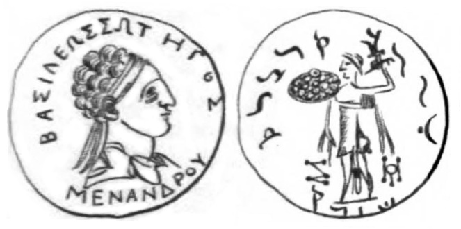 Menander. Obverse. - Bust, the head bound with fillet or diadem. Reverse. - Warrior, standing to left; right hand upraised, holding a bundle of darts; left hand holding forth an embossed shield. Monogrammical characters on either side of the feet. Legend Bactrian. This fine silver coin was purchased at Kábul. (original description by Charles Masson)